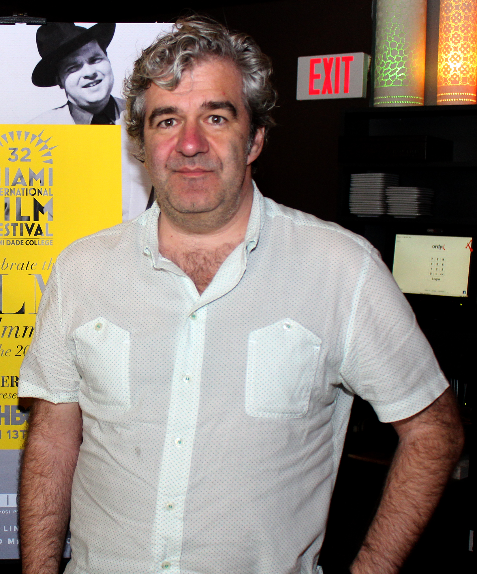 Actress Inma Cuesta and director Alvaro Fernandez Armero at the presentation of Sidetracked at the Miami International Film Festival